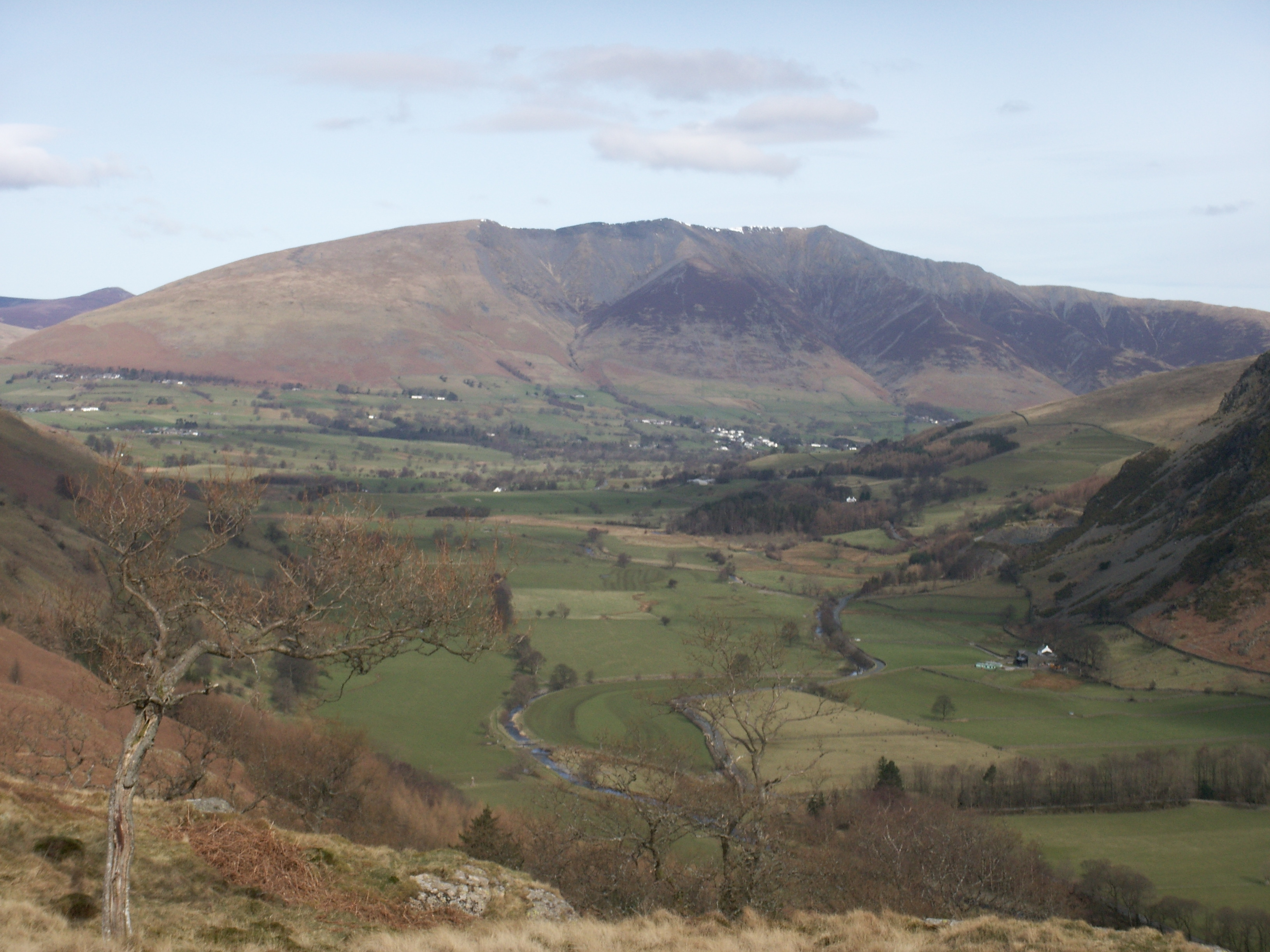 The Southern face of Blencathra in the English Lake District